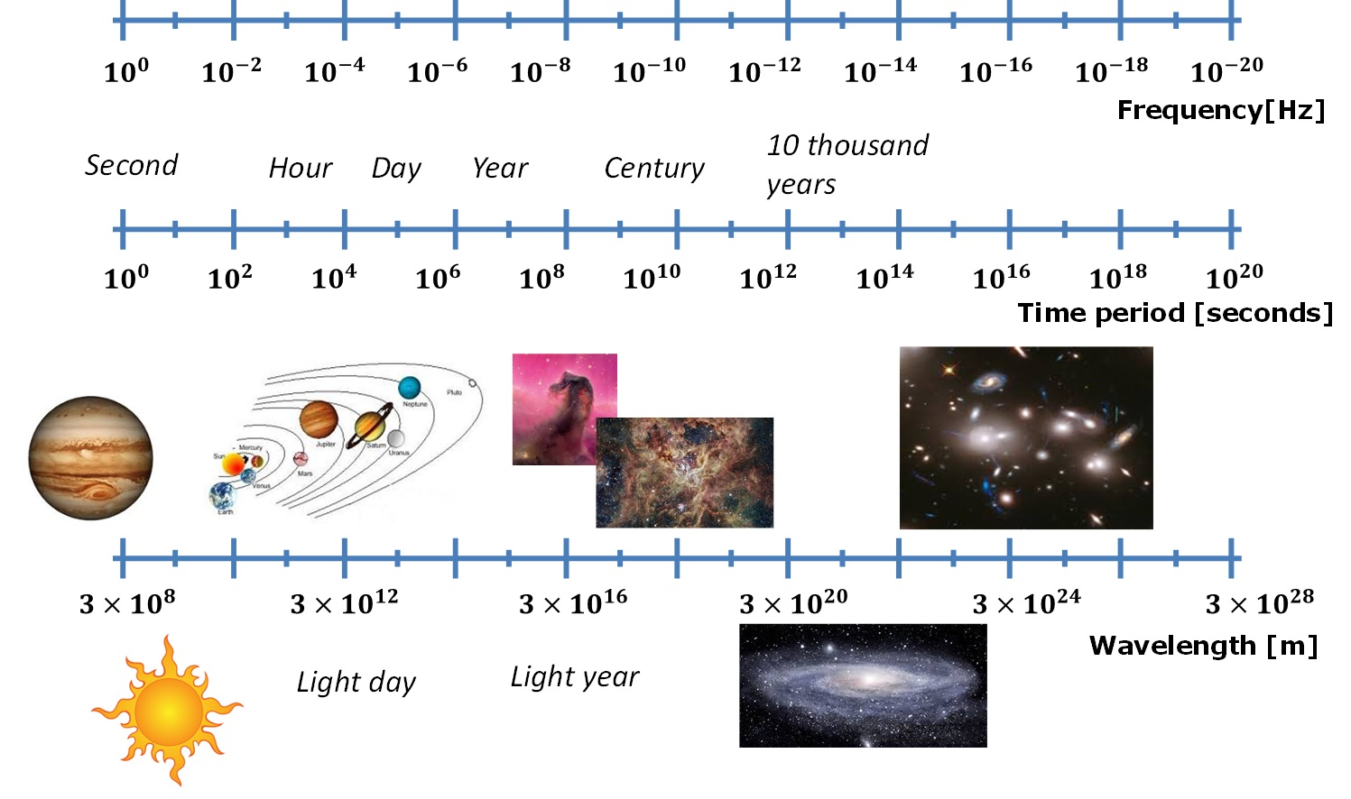 The figure illustrates the wavelengths and time periods that correspond to the different frequencies in the electromagnetic spectrum below three Hertz, showing cosmic objects with dimensions that scale with each wavelength to facilitate analysis and understanding.